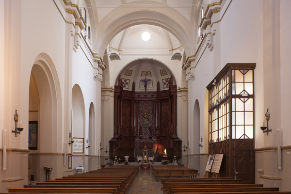 Ref: PM_100286_E_Manzanares.jpg; Manzanares; Templo de la Asunción; Castilla-la Mancha, Ciudad Real; Spain; Cultural heritage; Europe/Spain/Manzanares; photo: Paul M.R.Maeyaert; © Paul M.R. Maeyaert